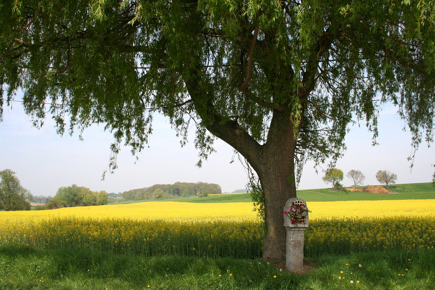 Warnant-Dreye (Belgium), Crossroad of the Burettes and Hautes Cotales streets - Little votive chapel dedicated to Notre-Dame de la Salle.